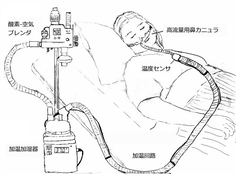 a patient using HFNC device (Japanese version)